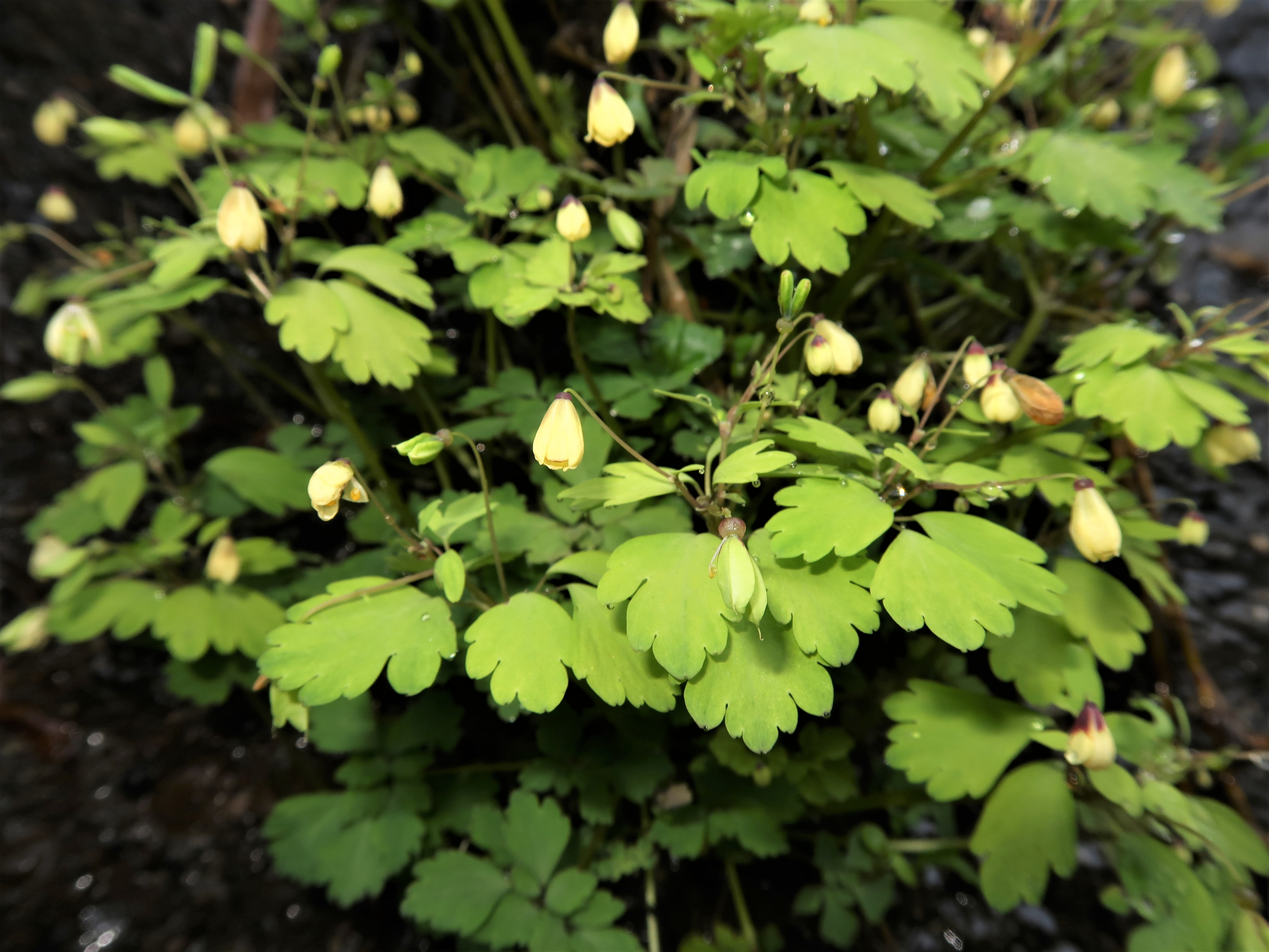 Dichocarpum sarmentosum, Takashima city, Shiga pref., Japan